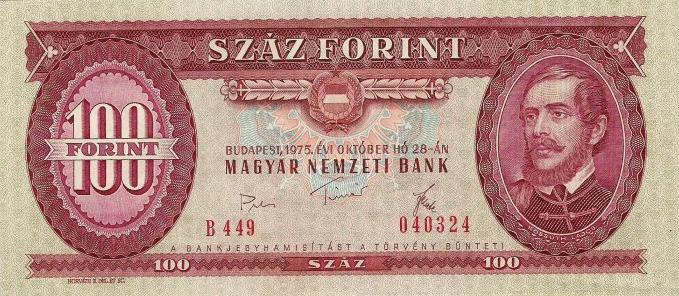 100 Hungarian forint (1957) - obverse